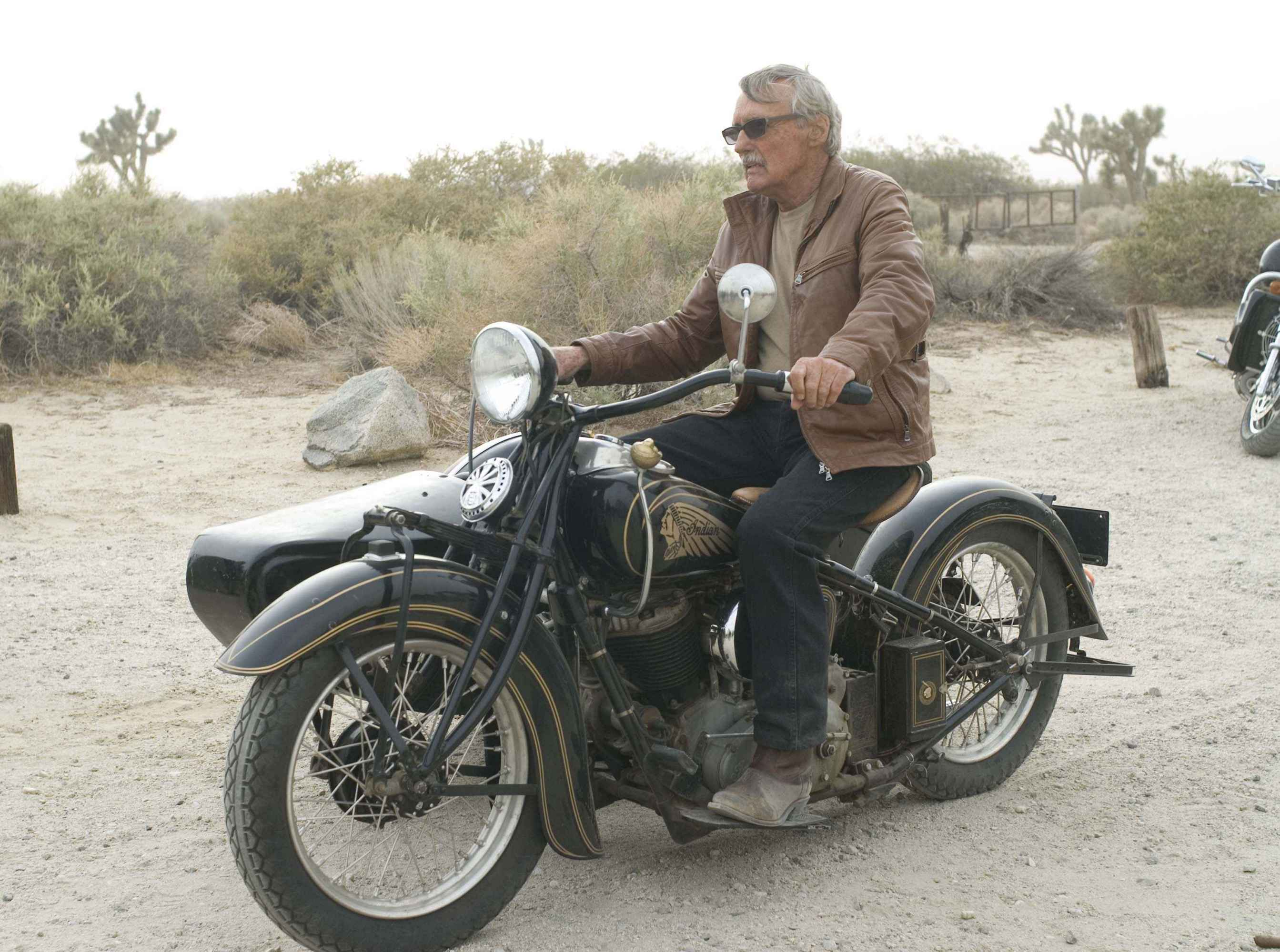 Added to Biker Life group by request.